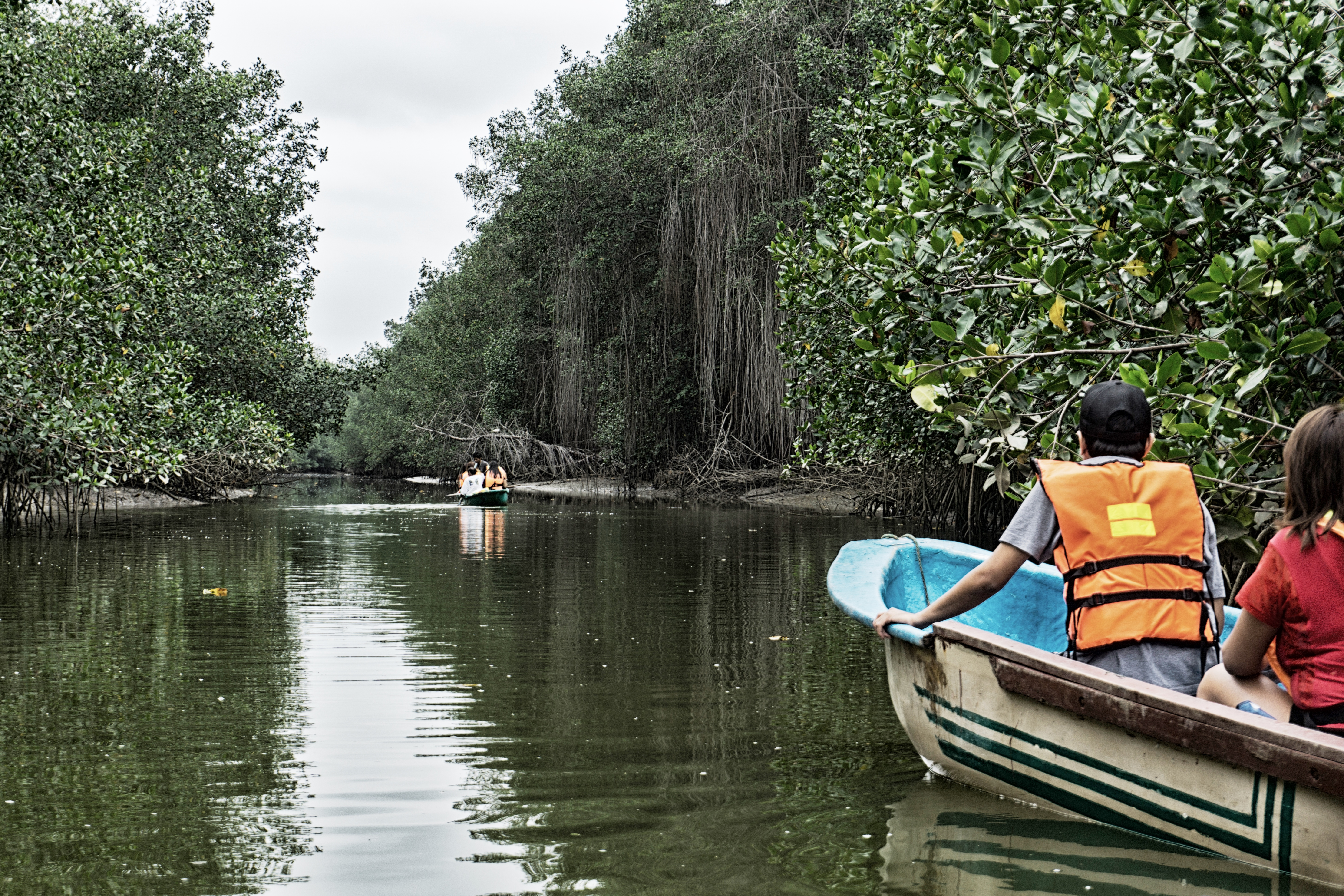 Manglares de Tumbes by boat